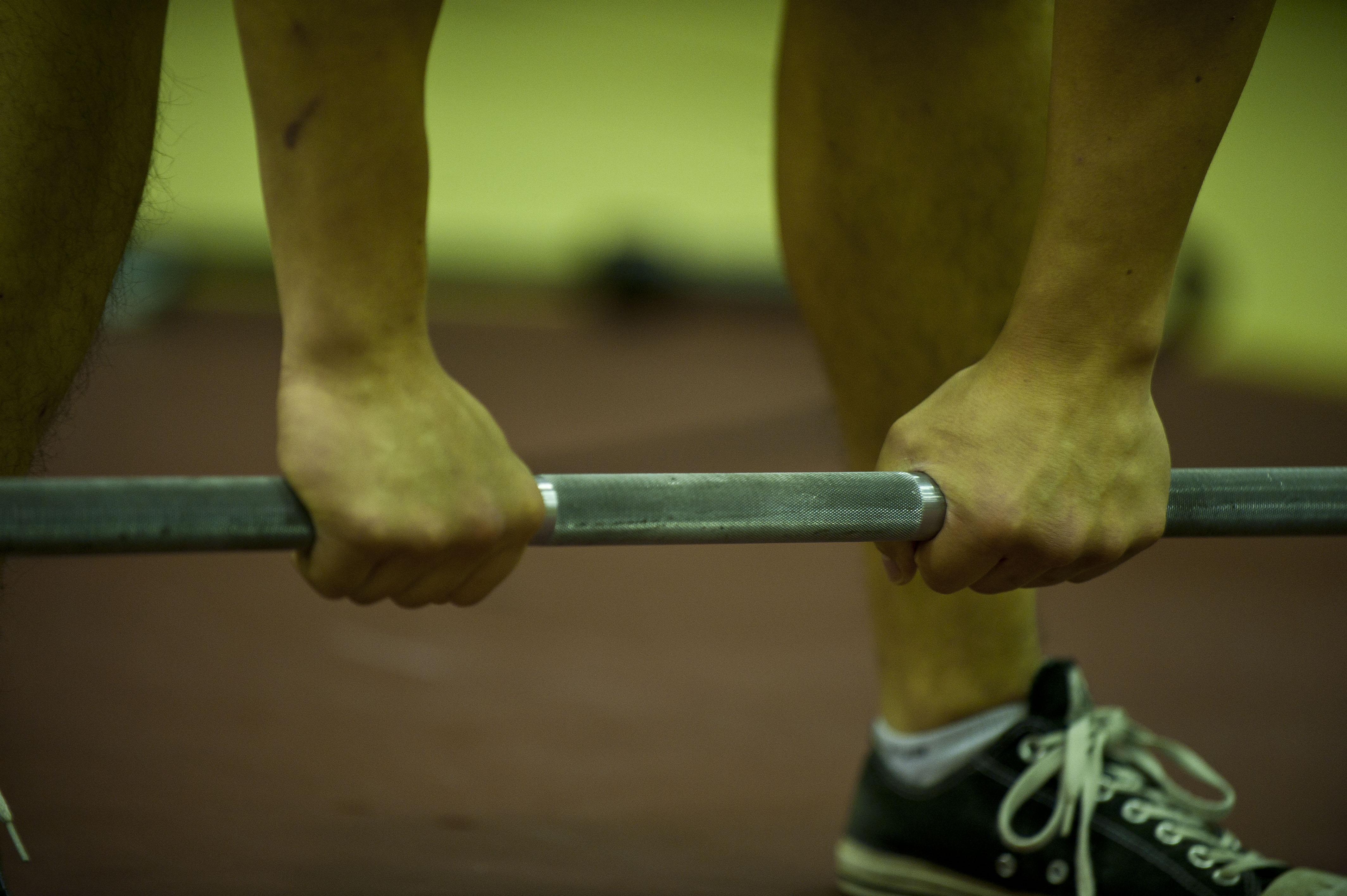 A participant prepares for the sumo deadlift high pulls portion of the Lik Fit Challenge Nov. 14, 2012, at Incirlik Air Base, Turkey. Other exercises at the event consisted of wallball shots, push presses, plyo-box jumps and rowing.